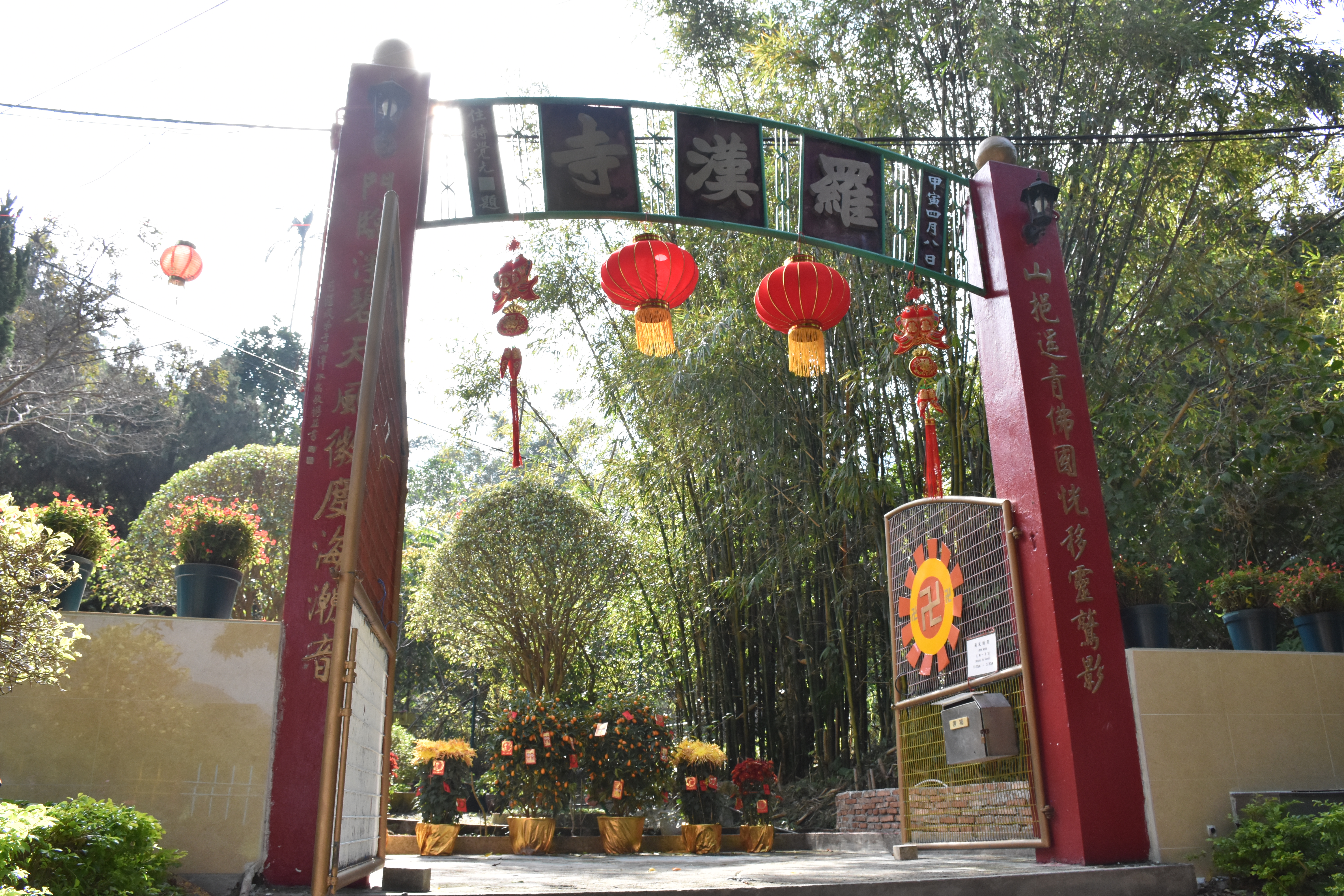 Main entrance of Lo Hon Buddhist Monastery, Tung Chung